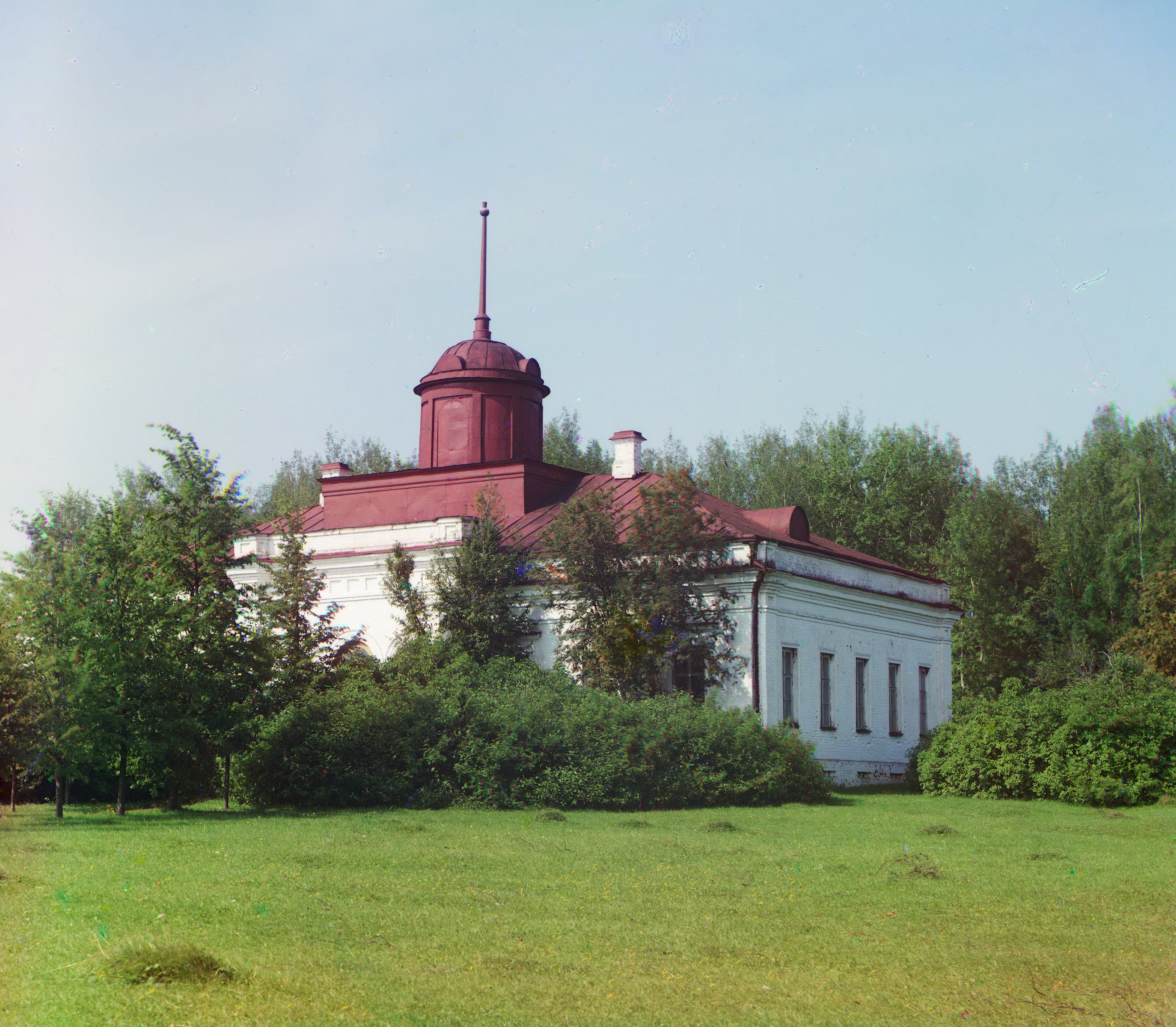 White palace in Veskovo near Pereslavl.